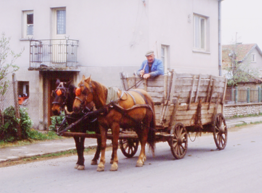 traditional wayn in Bulgaria